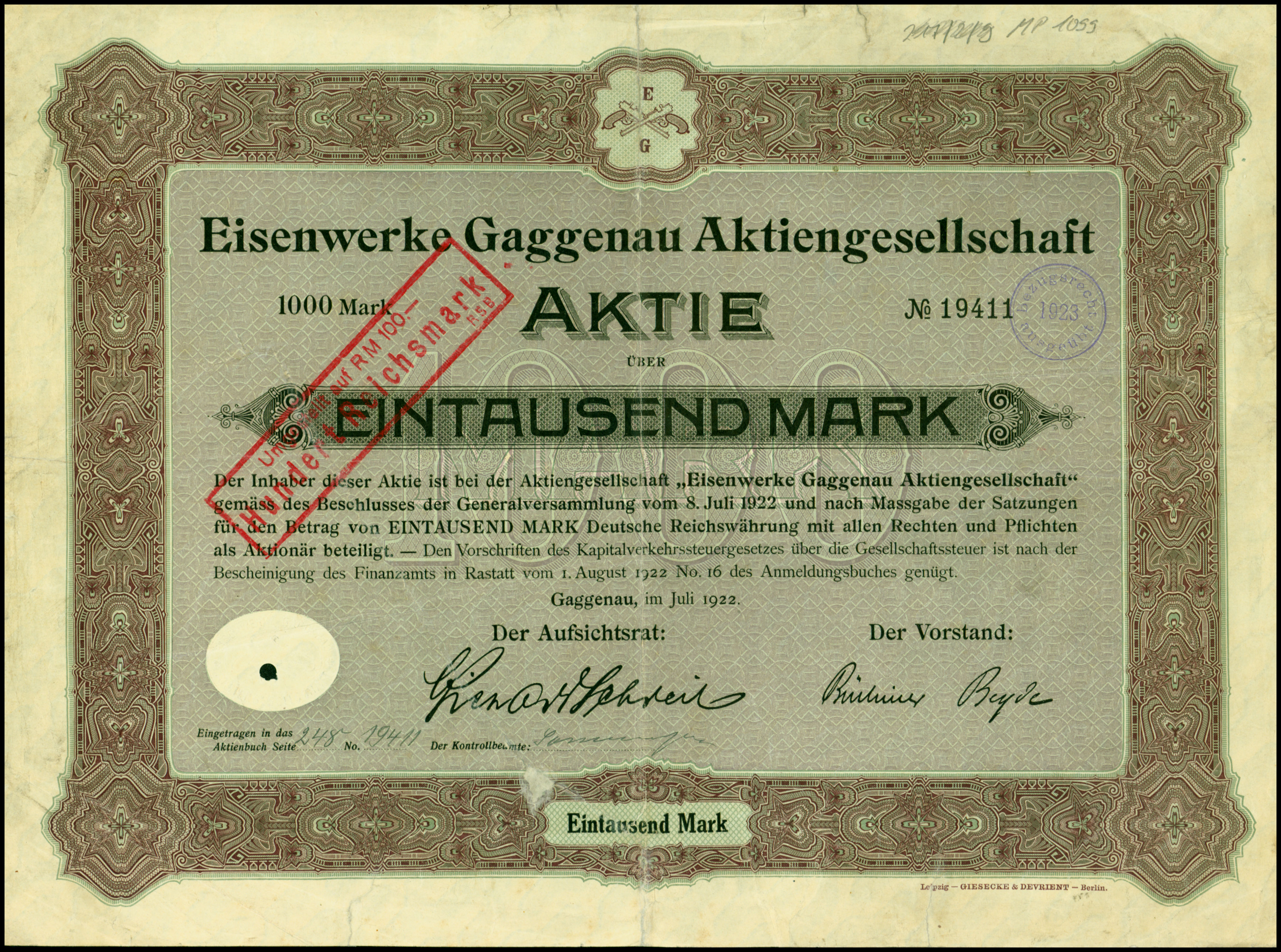 Share of the Eisenwerke Gaggenau AG, issued July 1922